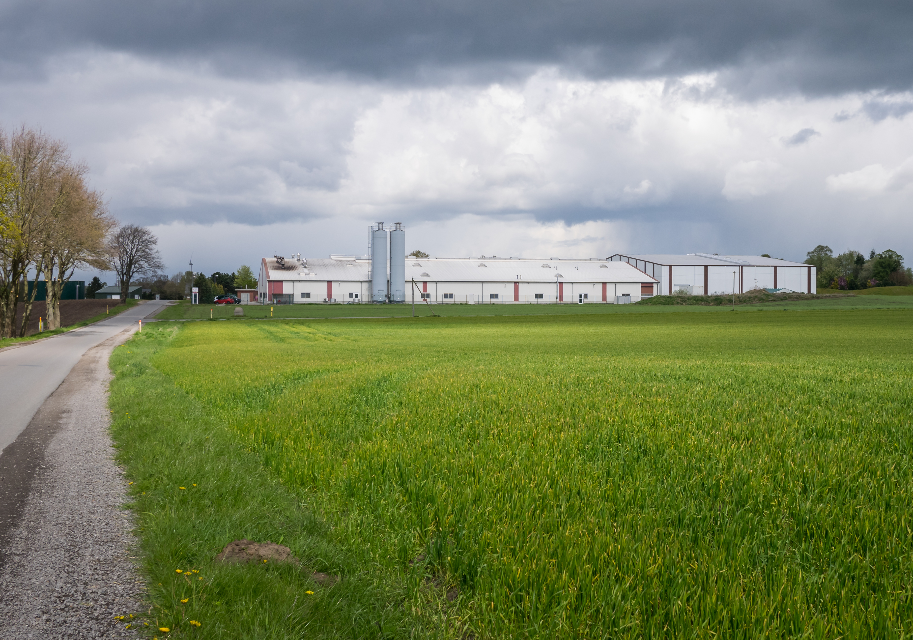 Landscape and waffle factory Meyer zu Venne in Venne. Ostercappeln, Lower Saxony, Germany